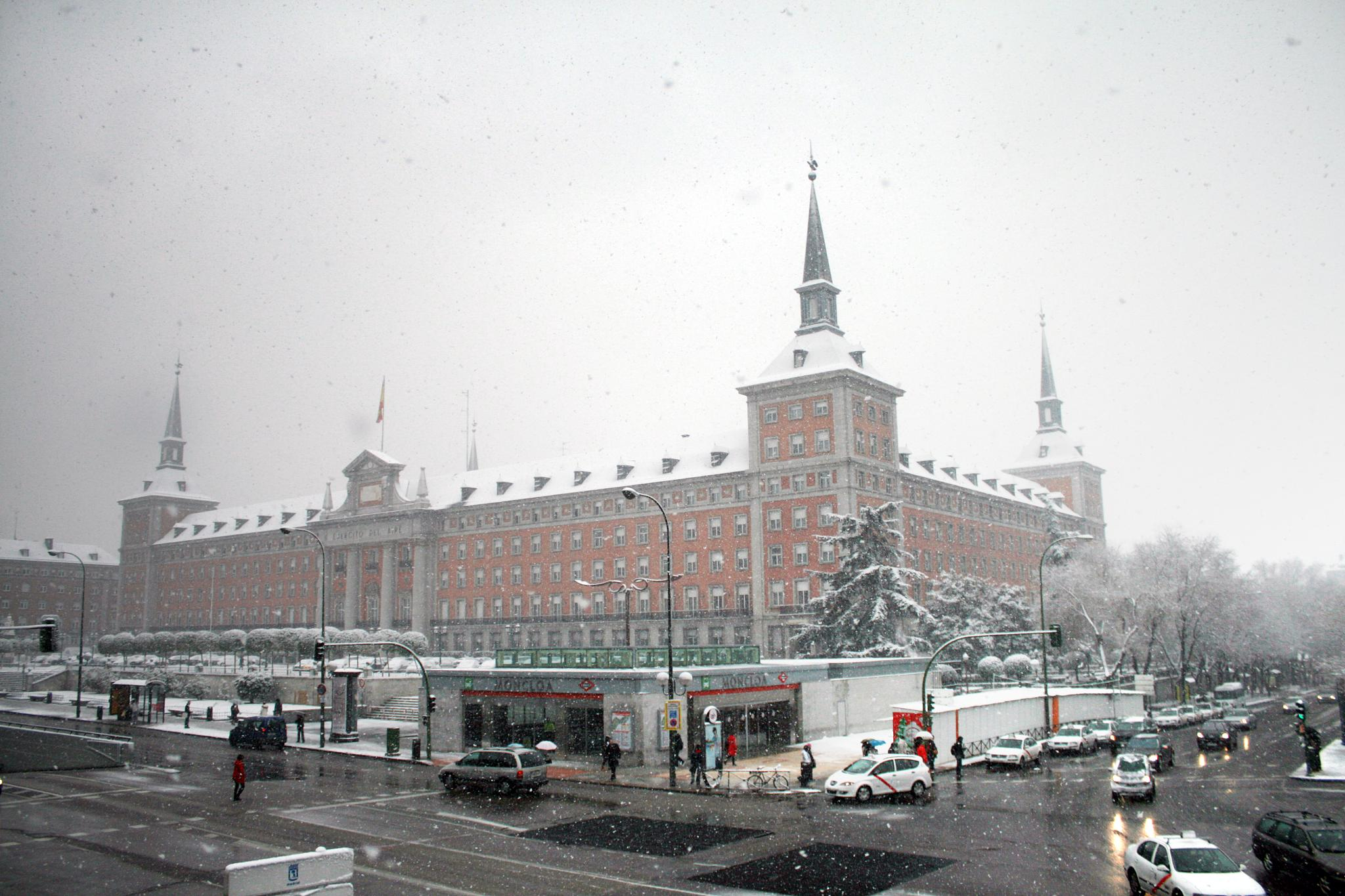 View of the Air force of Spain headquarters (Madrid) during a snowfall.